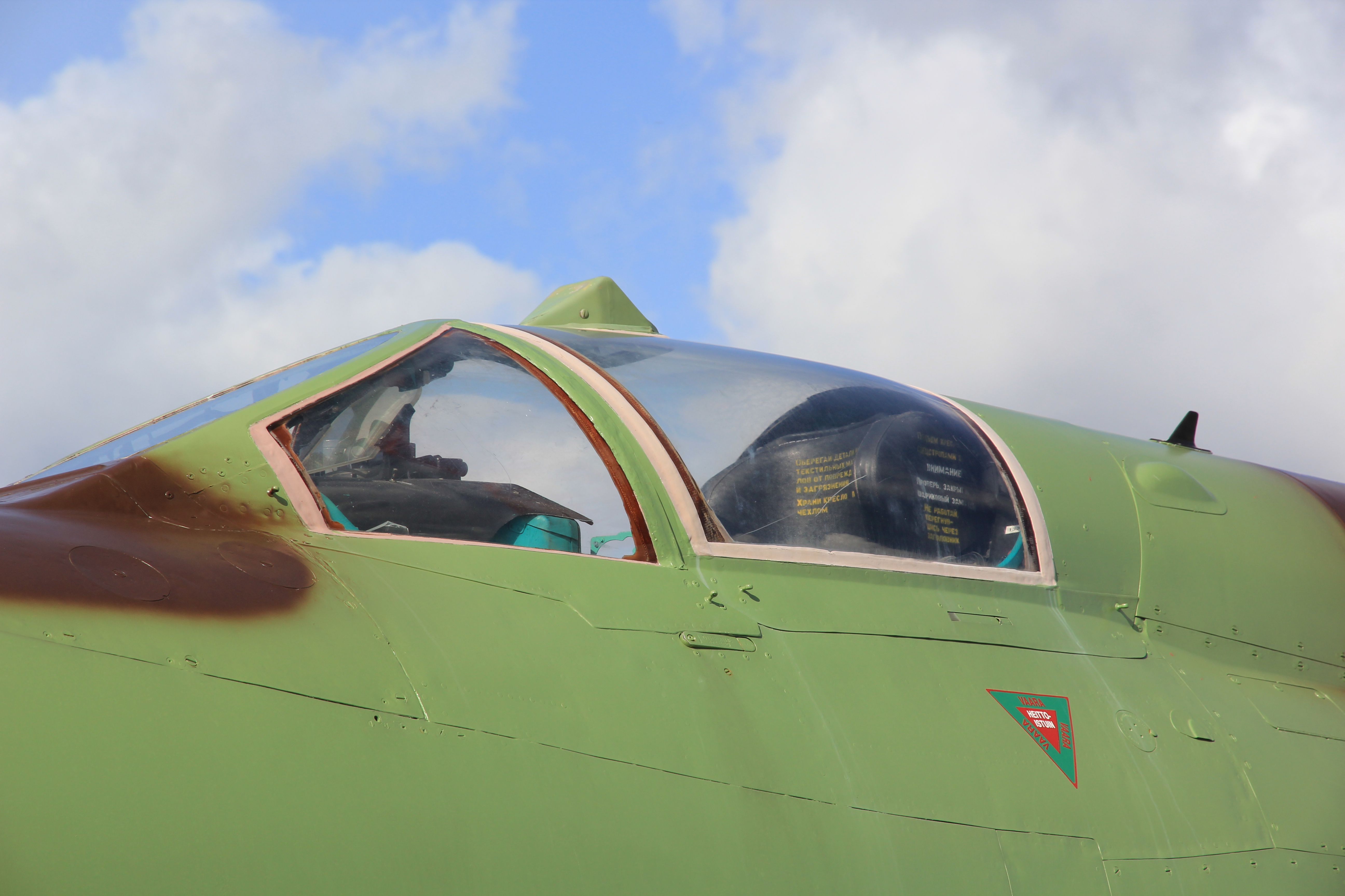 Cockpit of MiG-21bis (MG-130) fighter on display in Verkkokauppa building observation terace in Jätkäsaari.